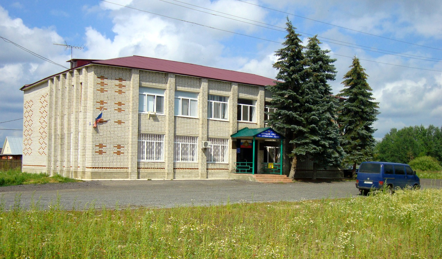 GAI of Petushki rayon. Vladimir oblast, Russia.